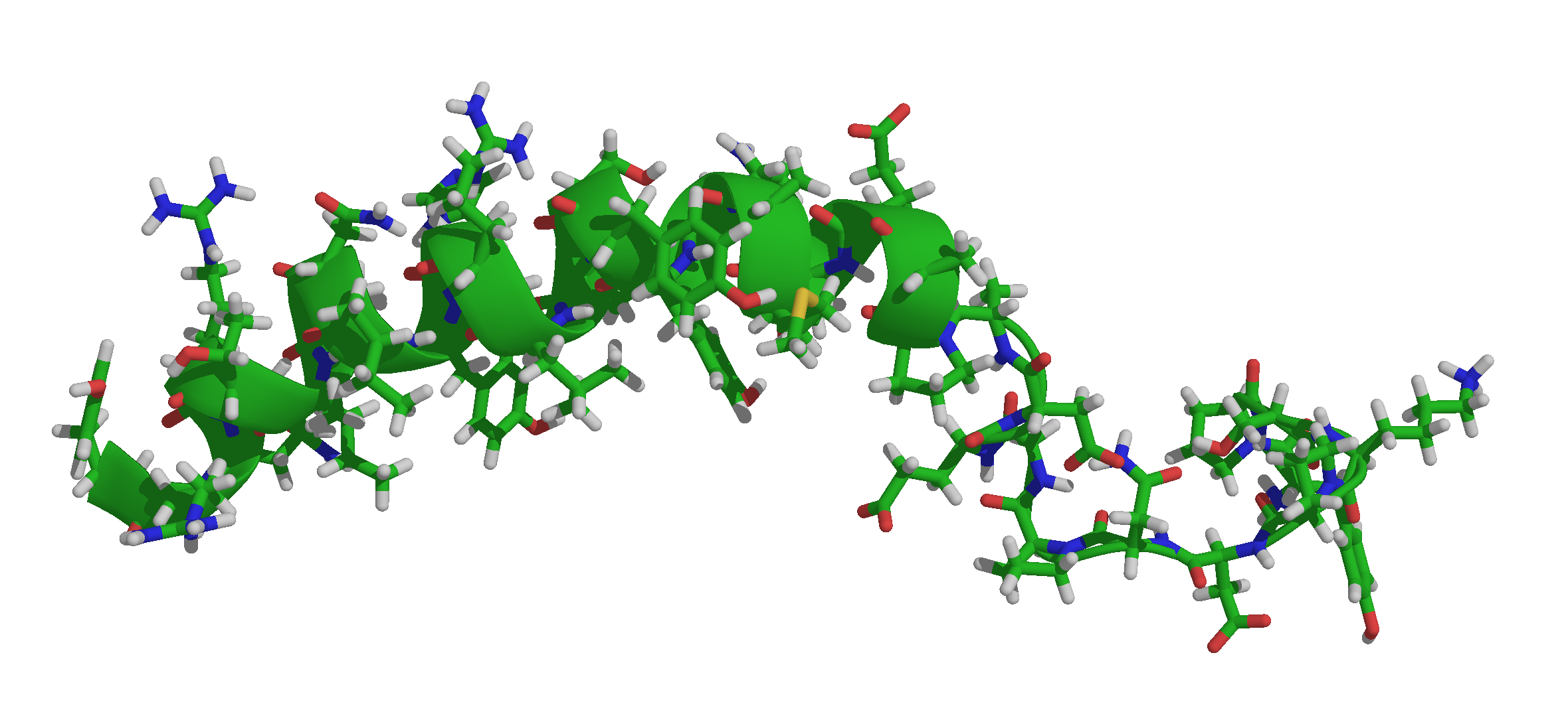 3d structure of neuropeptide Y from PDB 1RON. Ref.: S.A.Monks et al. (1996). Solution structure of human neuropeptide Y.. J Biomol NMR, 8, 379-390. PMID 9008359 [